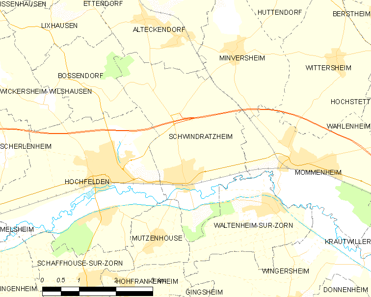 Map of French municipality